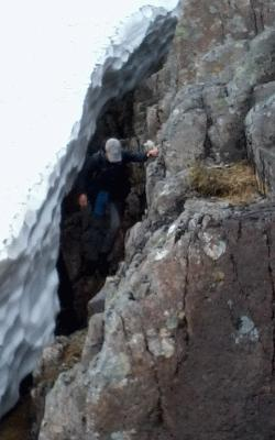 Even as late as June, snow can block access to the foot of East Gully on Douglas Boulder (Ben Nevis, Highland Scotland), in which case the east flank of the boulder must be scrambled instead.